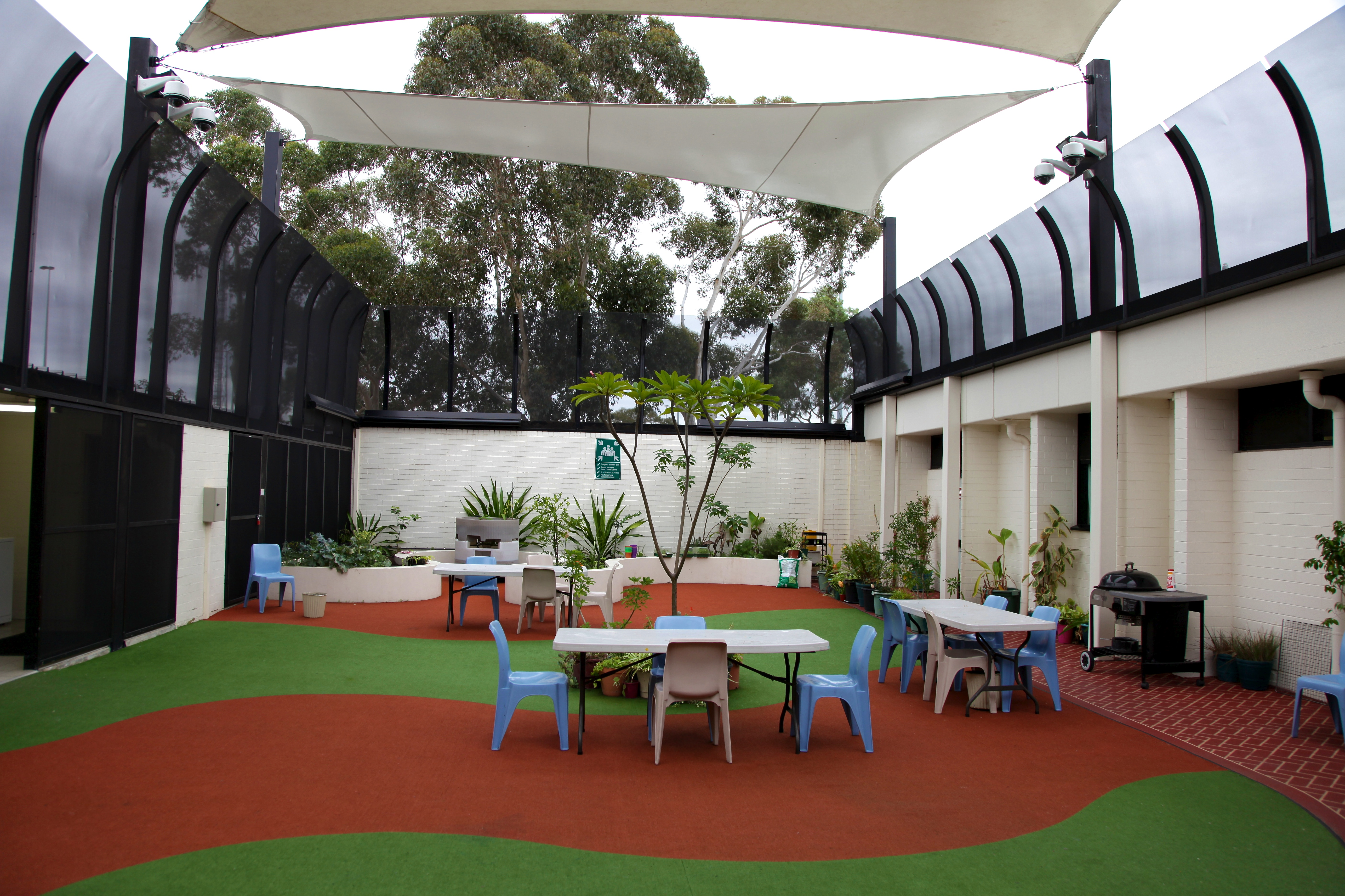 Perth Immigration Detention Centre